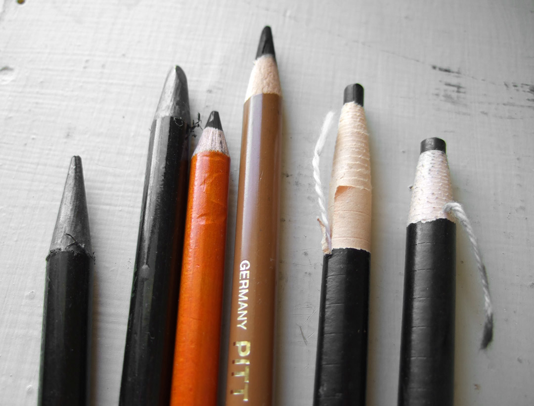 2 woodless graphite pencils in plastic sheaths, 2 charcoal pencils in wooden sheaths, 2 grease pencils in paper sheaths that is unwrapped as the pencil is used.